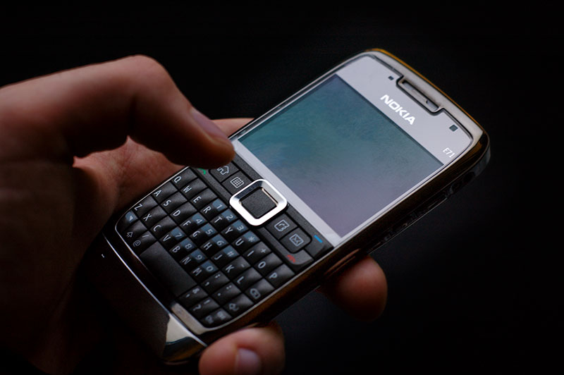 Nokia E71 hold in the palm